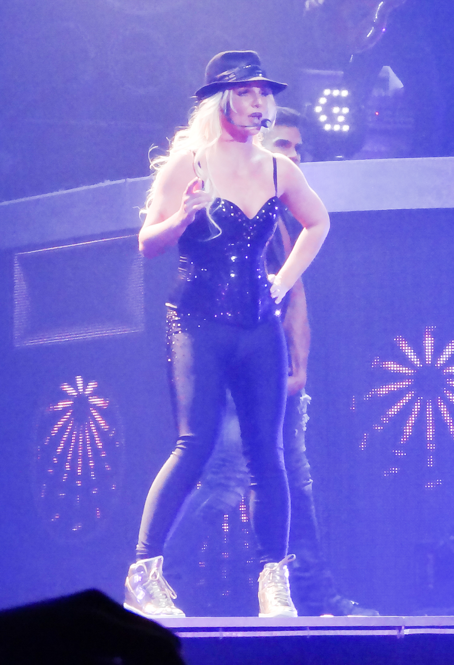 Break The Ice